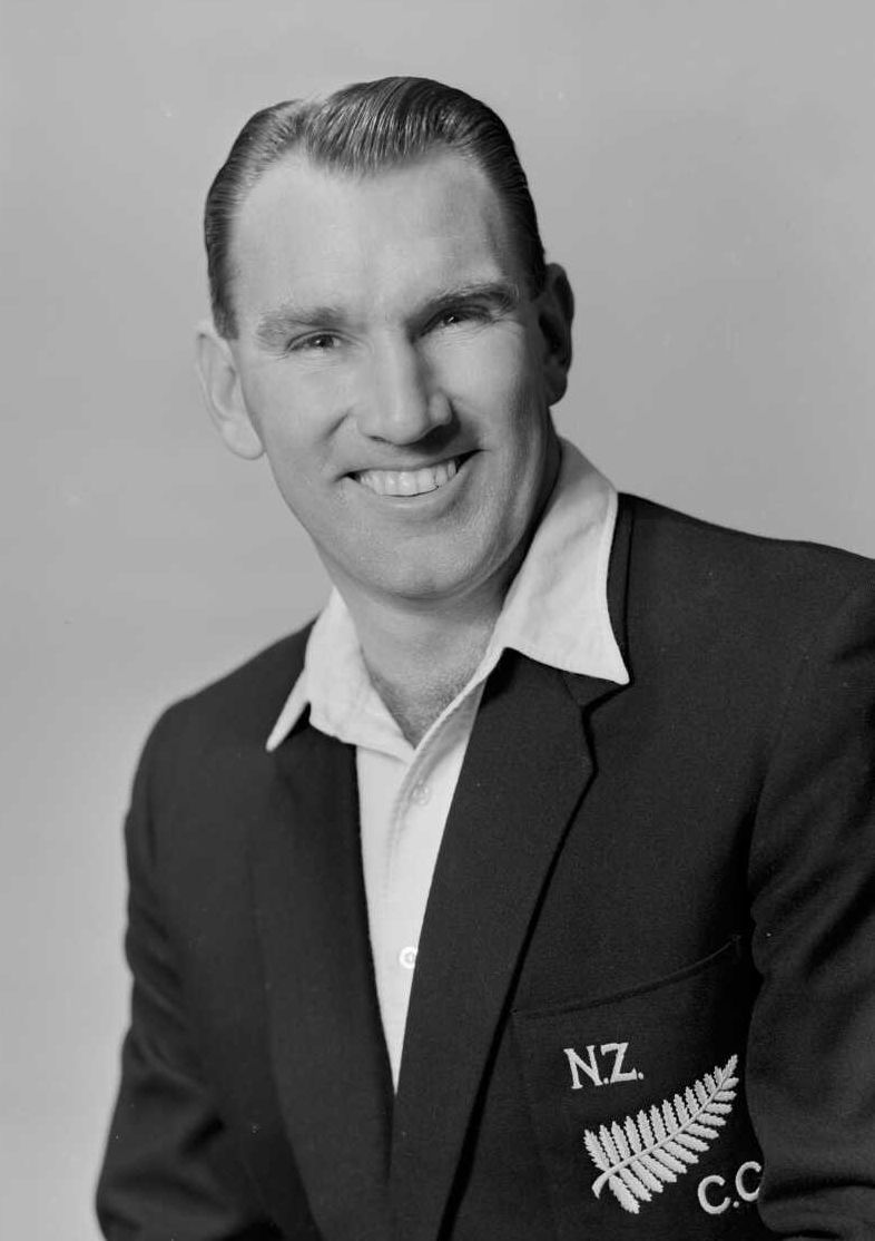 Photograph of J. R. Reid, New Zealand Cricket Representative, taken by Crown Studio Ltd of Wellington.